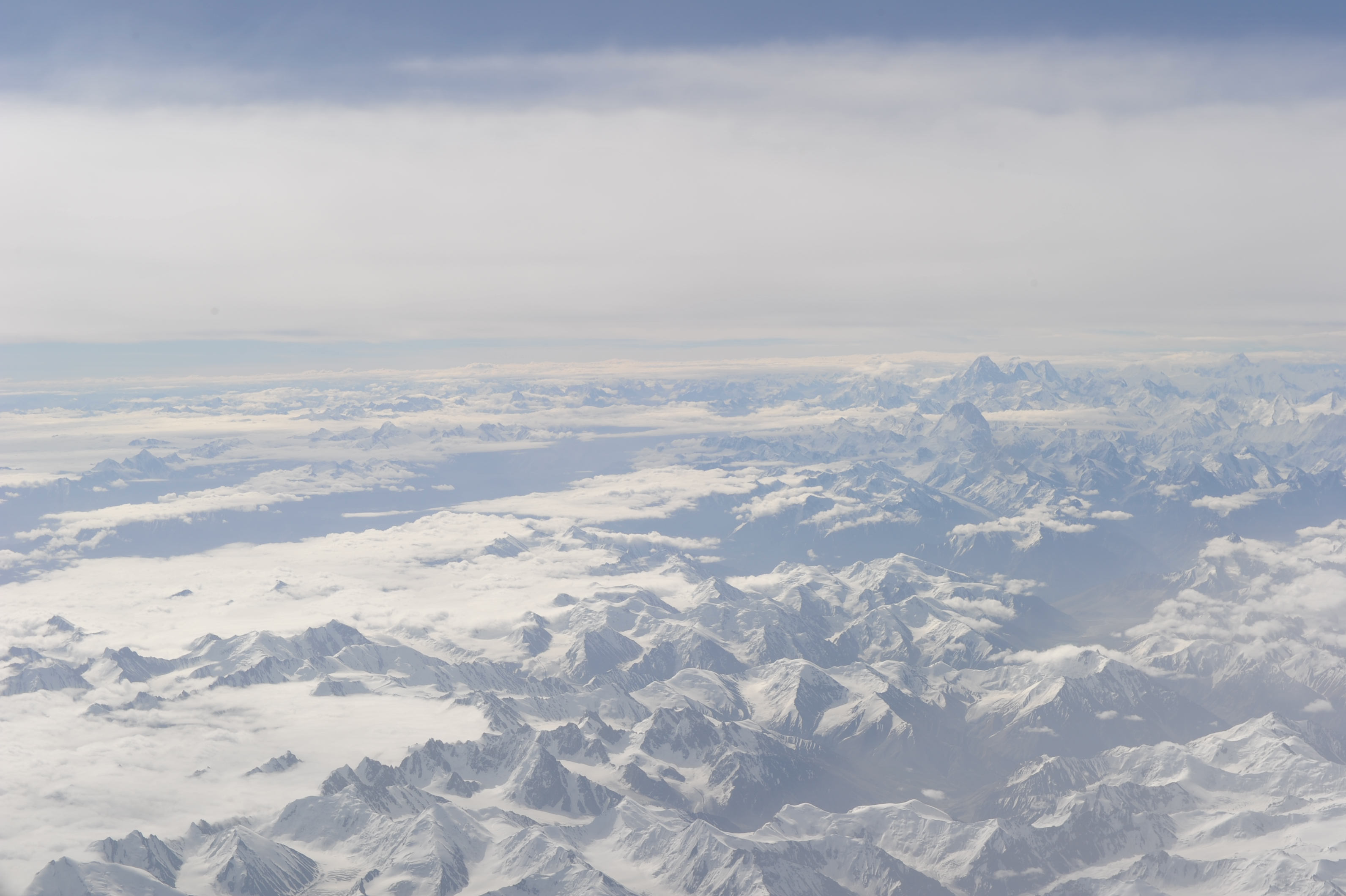 Flight over the north-eastern Karakoram (Dubai - Beijing), K2 in the background